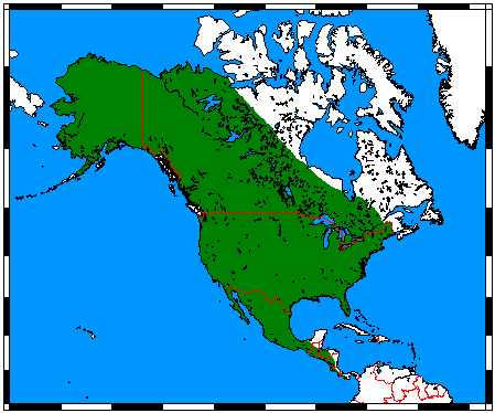 Coyote (Canis latrans) range map, made by me with help of Map depending on the range map at IUCN red list.